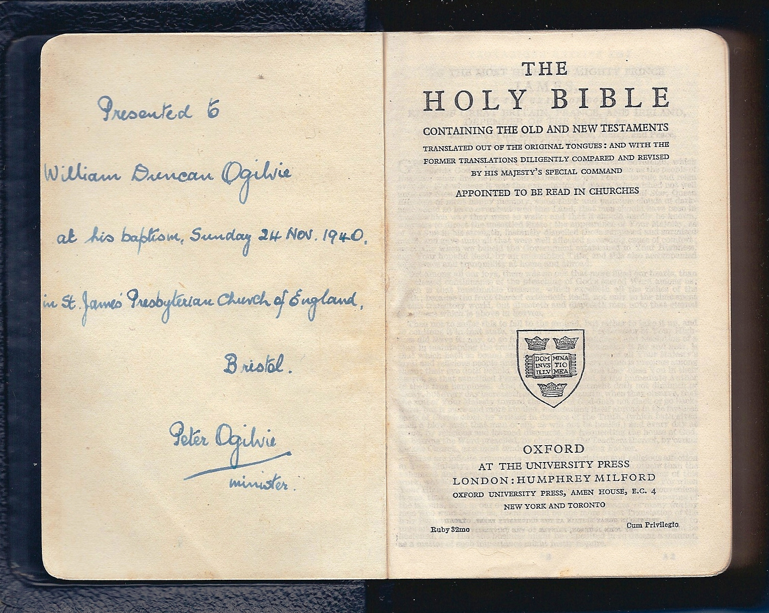 Scanned image of the Bible presented on his christening to William Duncan Ogilvie (now the contributor) the day that the church was bombed in November 1940 by Nazi bomber aeroplanes. This was the last christening in the church before it was bombed.